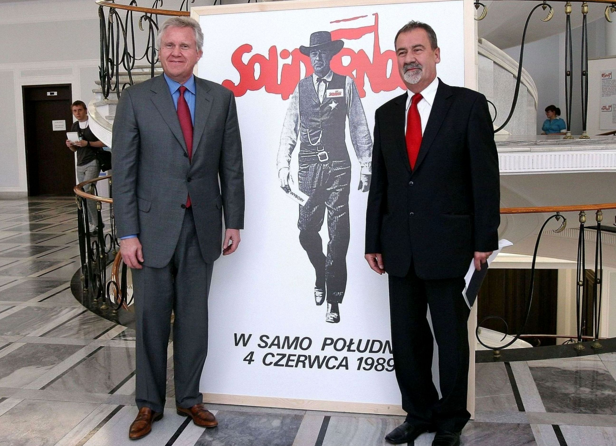 CEO of General Electric Jeffrey R. Immelt and Senator Jan Wyrowiński in the Polish Senate